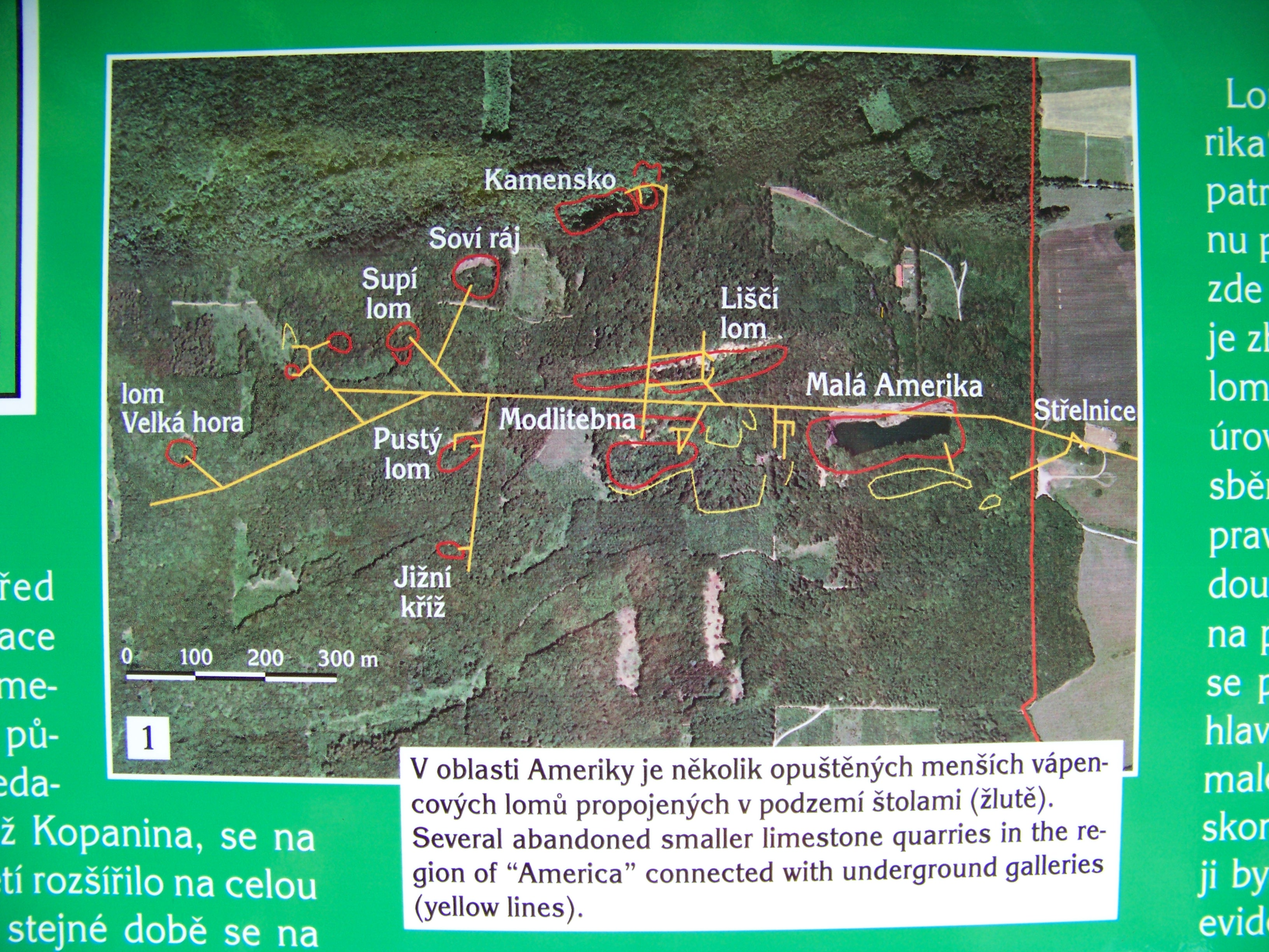 Karlštejn, Beroun District, Central Bohemian Region, the Czech Republic. Mořina Limestone Quarries, informational board near Malá Amerika Quarry.